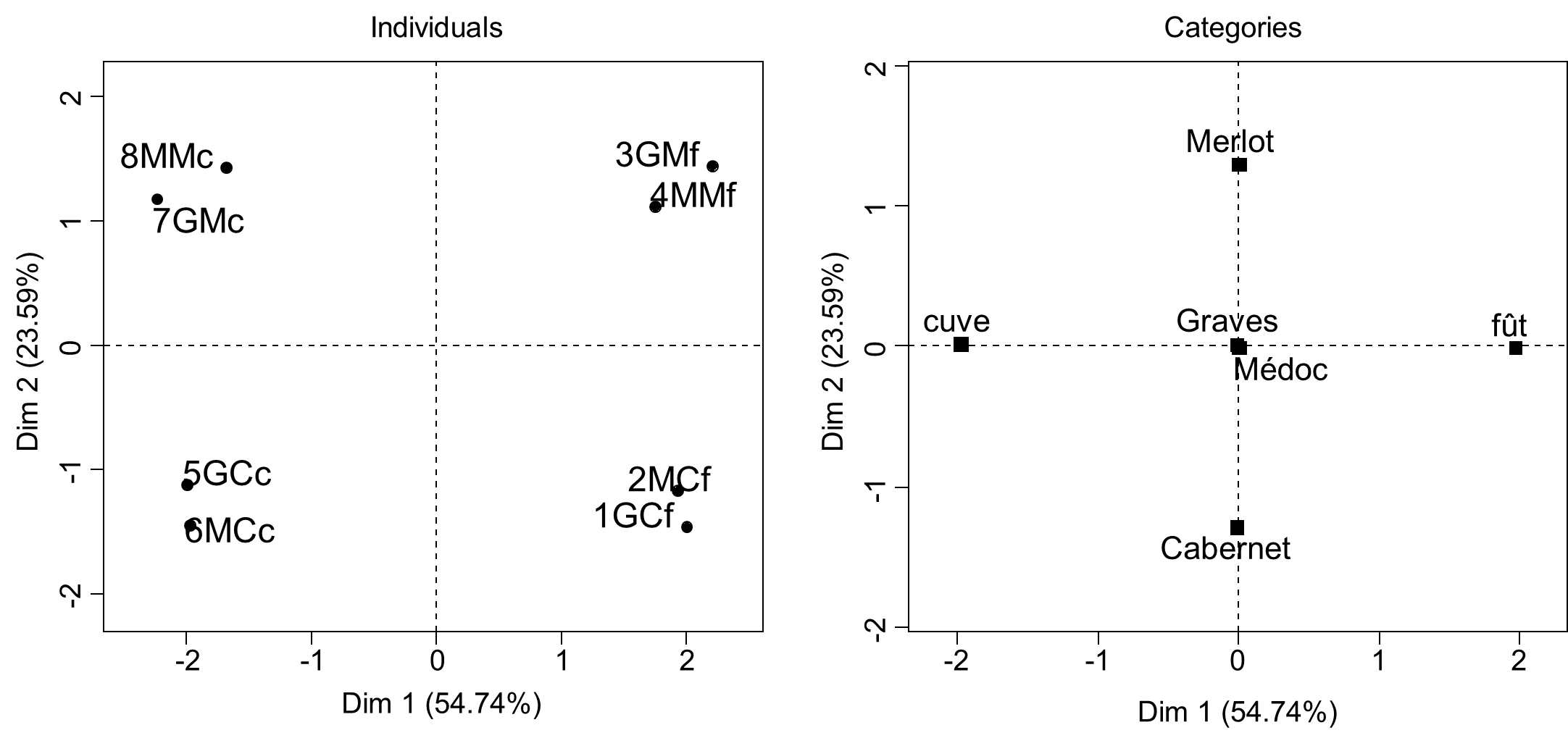 Figure 3 de l'article Napping